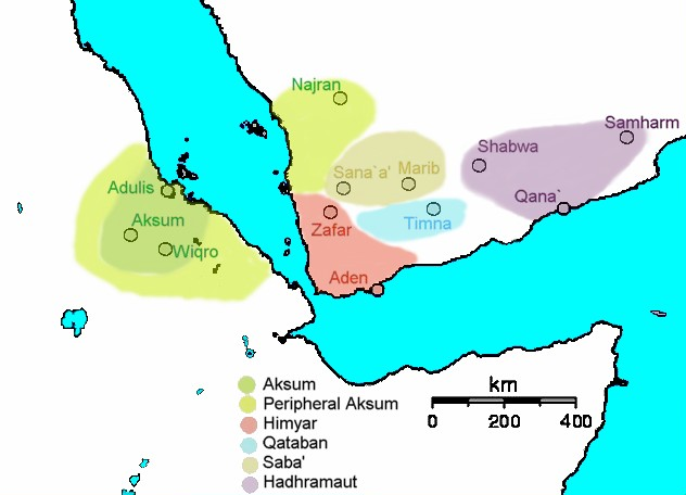 Summary Made by me (Yom). Map of Aksum and South Arabia ca. 230 AD at the end of the reign of GDRT.